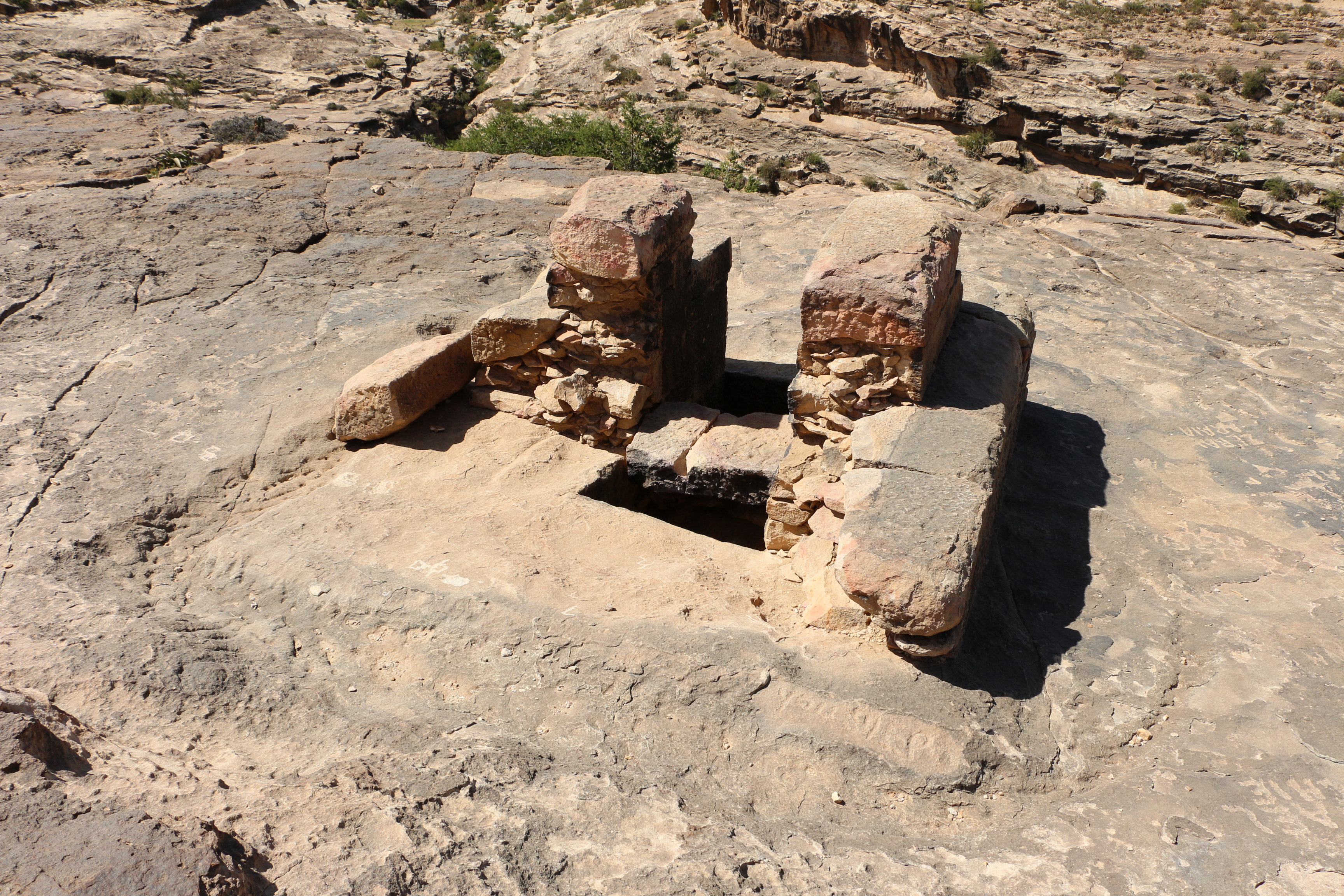 Qohaito - The 'Egyptian' Tomb